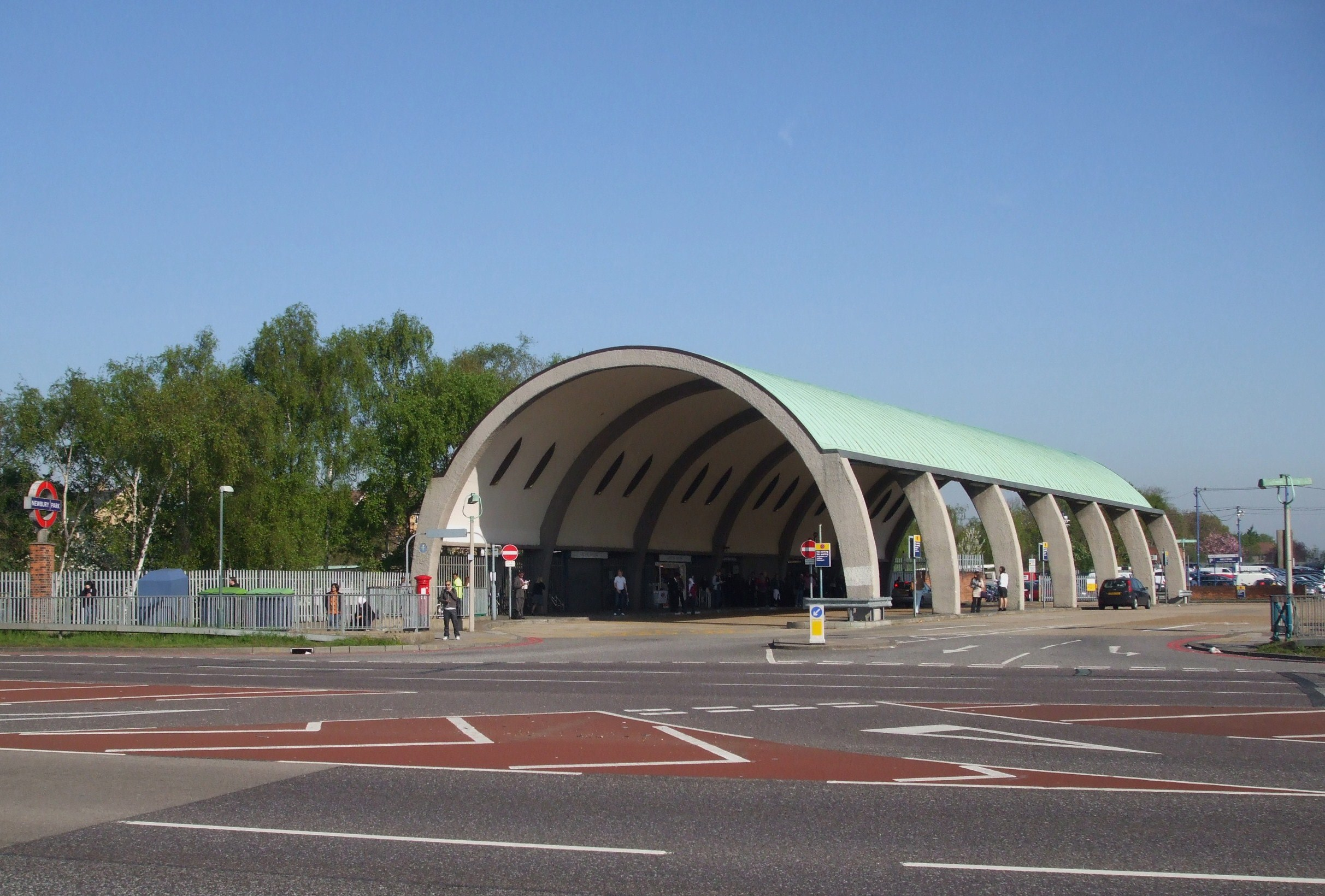 Newbury Park tube station bus shelter in April 2009, prior to recent, but abandoned, lift-installation works at the station.